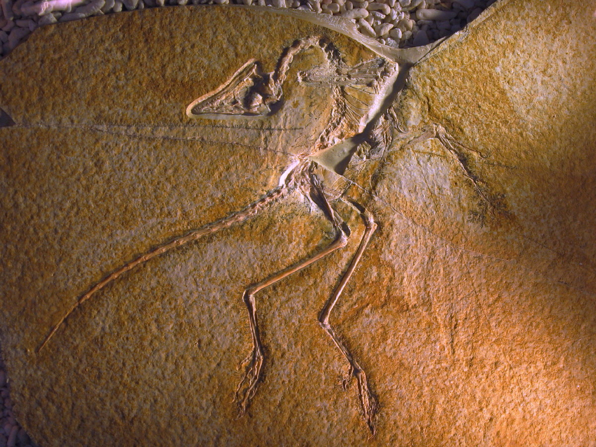 Archaeopteryx lithographica, Eichstätter specimen, as displayed on the Munich Mineral Show 2009. (This image shows the original fossil - not a cast.) The low lighting angle helps to bring out the faint imprints of the feathers on the wing (between the arm and the foot) and at the tail.